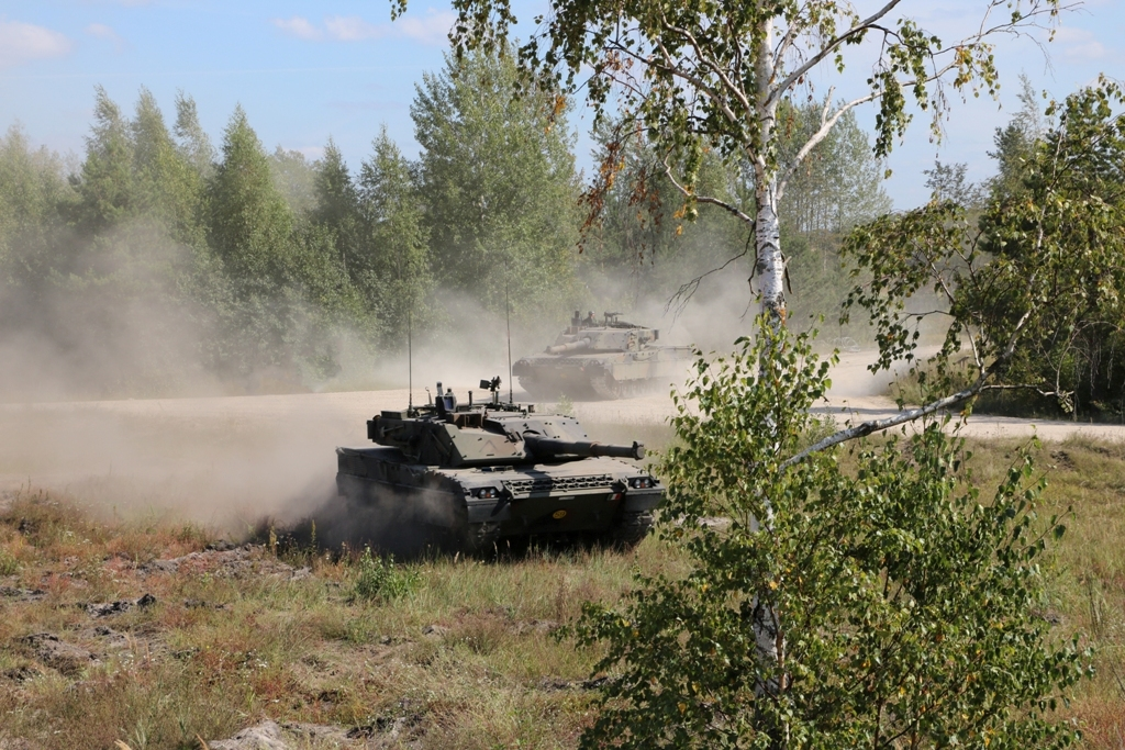 Italian Army - 4th Tank Regiment: Ariete main battle tanks in Latvia as part of NATO's Enhanced Forward Presence, September 2019